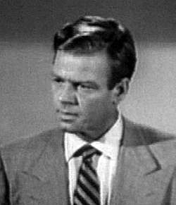 Cropped screenshot of William Ching from the film D.O.A. (1950).